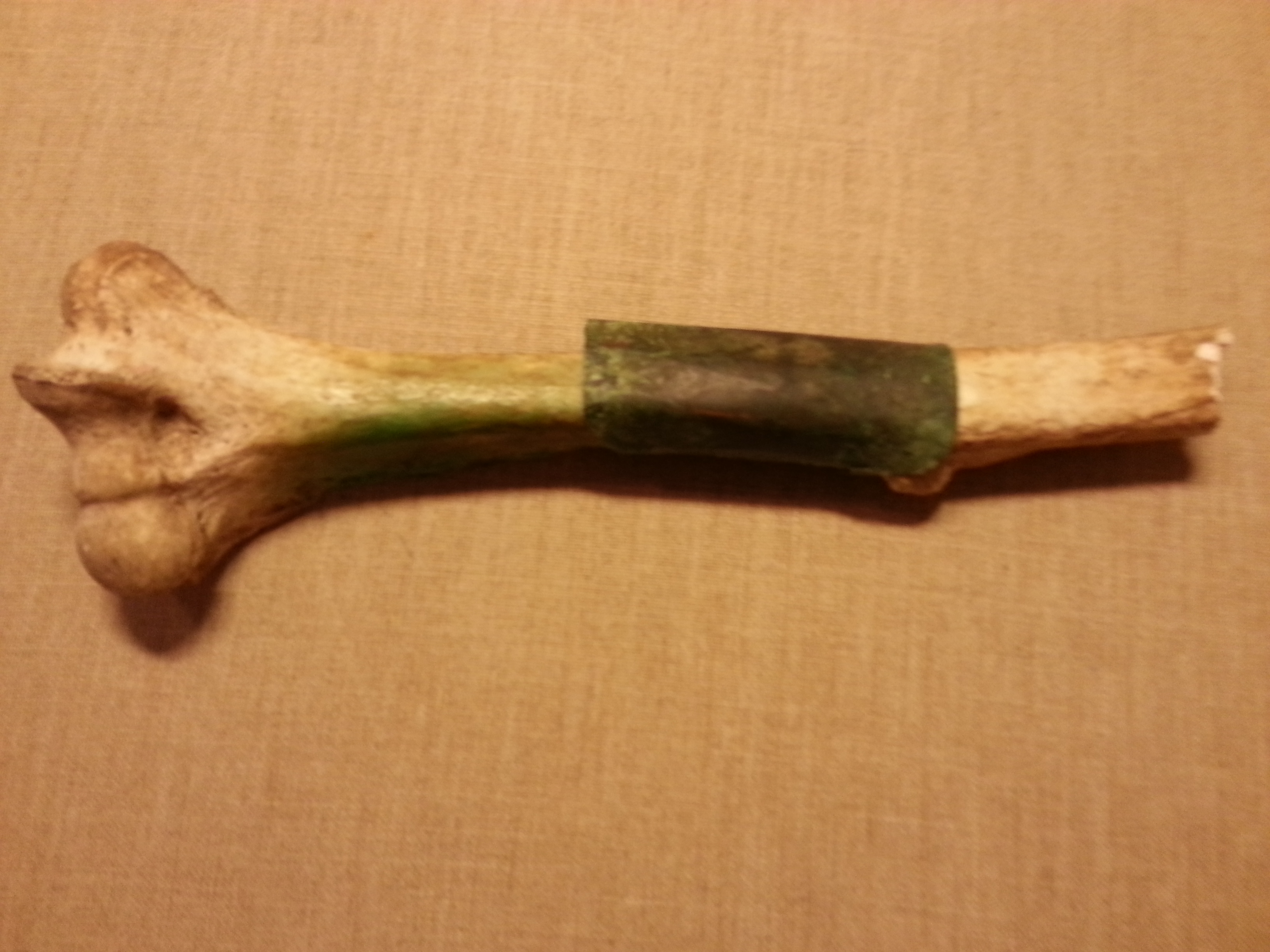 Humerus with copper plate. From Varnhem Abbey, medieval period. National Historical Museum, museum number SHM 18393.